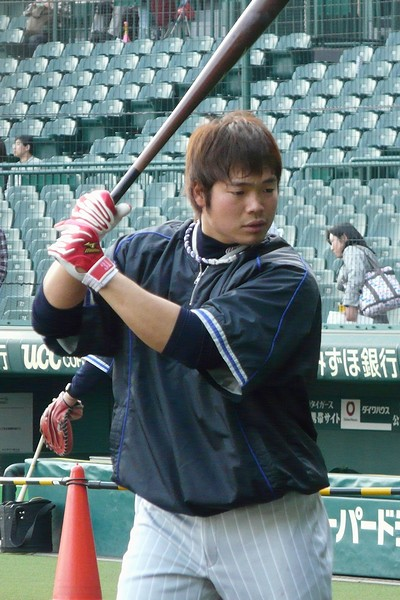 Yuki Yoshimura, outfielder of the Yokohama BayStars, at Hanshin Koshien Stadium.